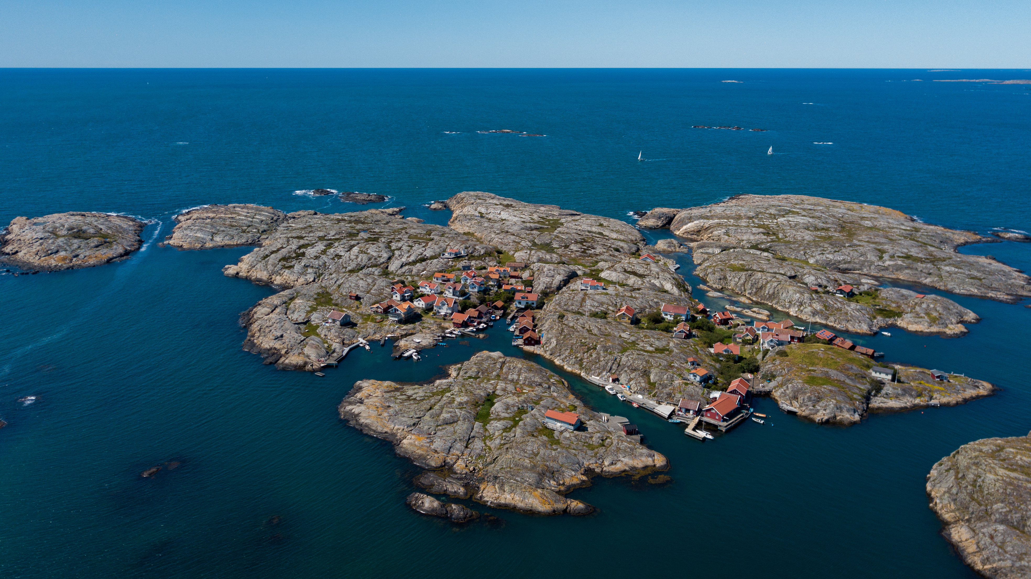 Drone image of Flatholmen with the horizon, to the West of Flatholmen, in the background. Captured with a DJI Mavic Pro summer 2019.